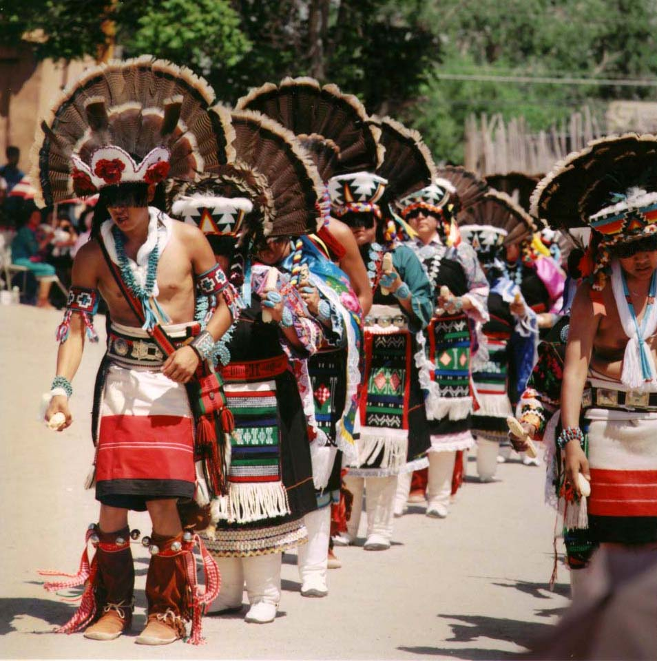 Dancers at Ohkay Owingeh, May 2005.